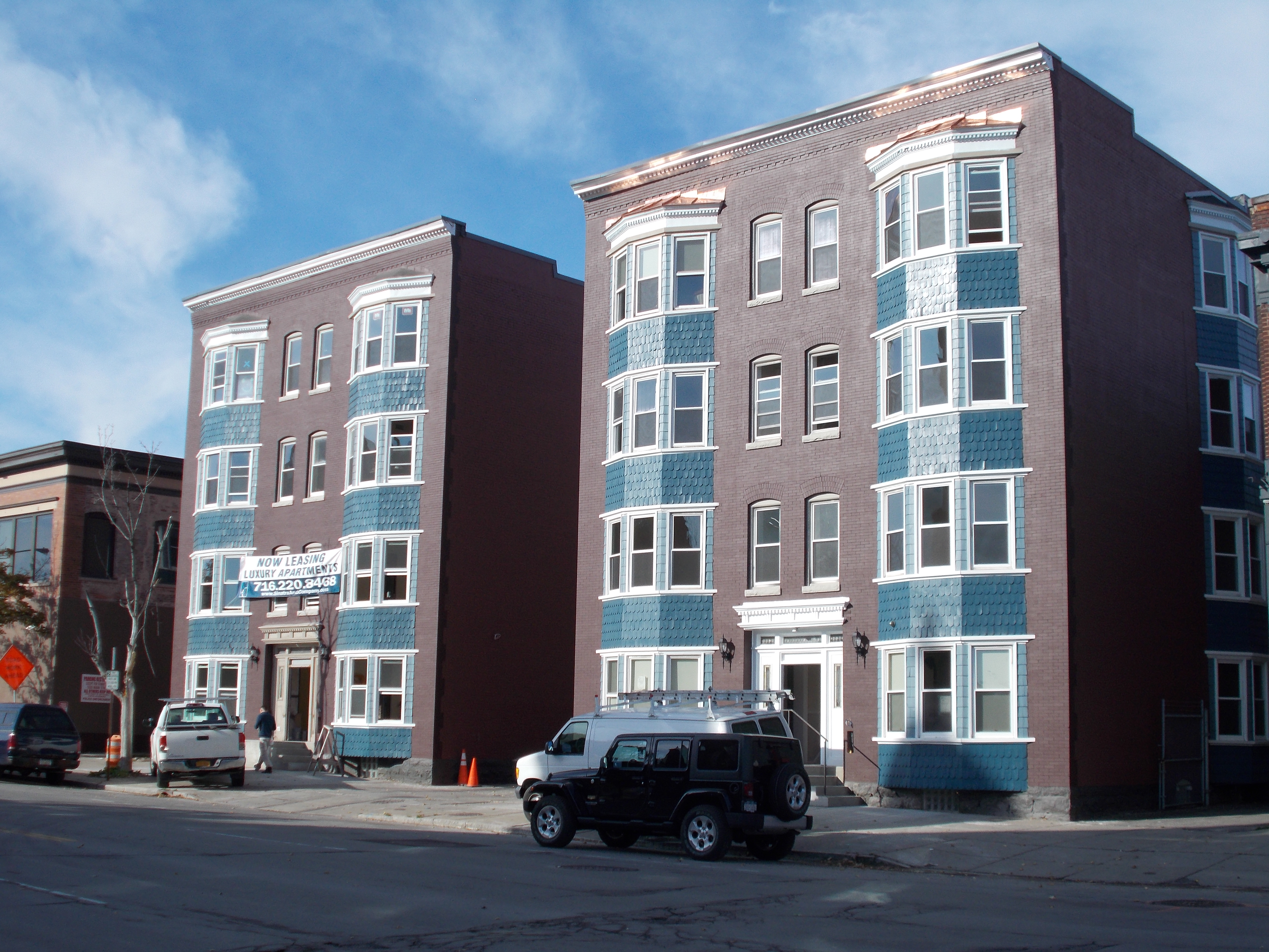 The Wayne and the Waldorf Apartments, 1106 Main Street, Buffalo, New York